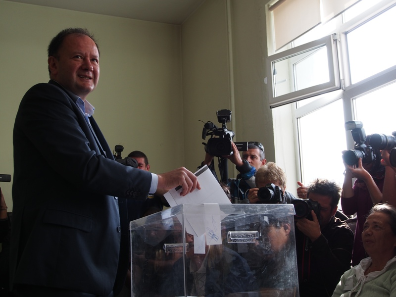 Михаил Миков